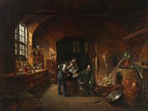 "Svane apotekets laboratorium"; Svane Pharmacy Laboratory